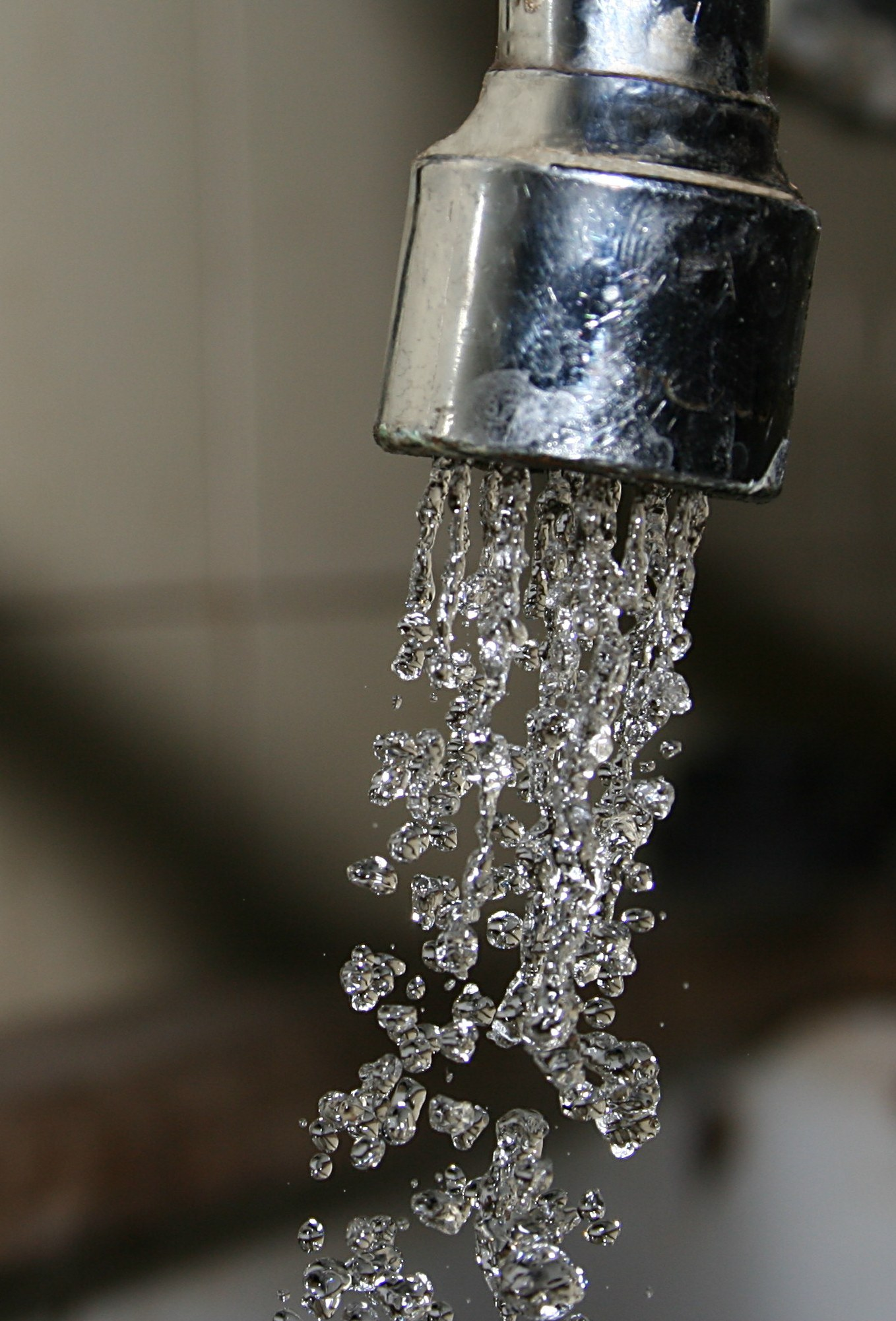 Water flowing down from a faucet. Camera model : Canon EOS 350D DIGITAL Flash used : Yes Focal length : 55.0mm (35mm equivalent: 89mm) Exposure time: 0.0050 s (1/200) Aperture : f/9.0 ISO equiv. : 200 Metering Mode: matrix Exposure prog: shutter priority (semi-auto)